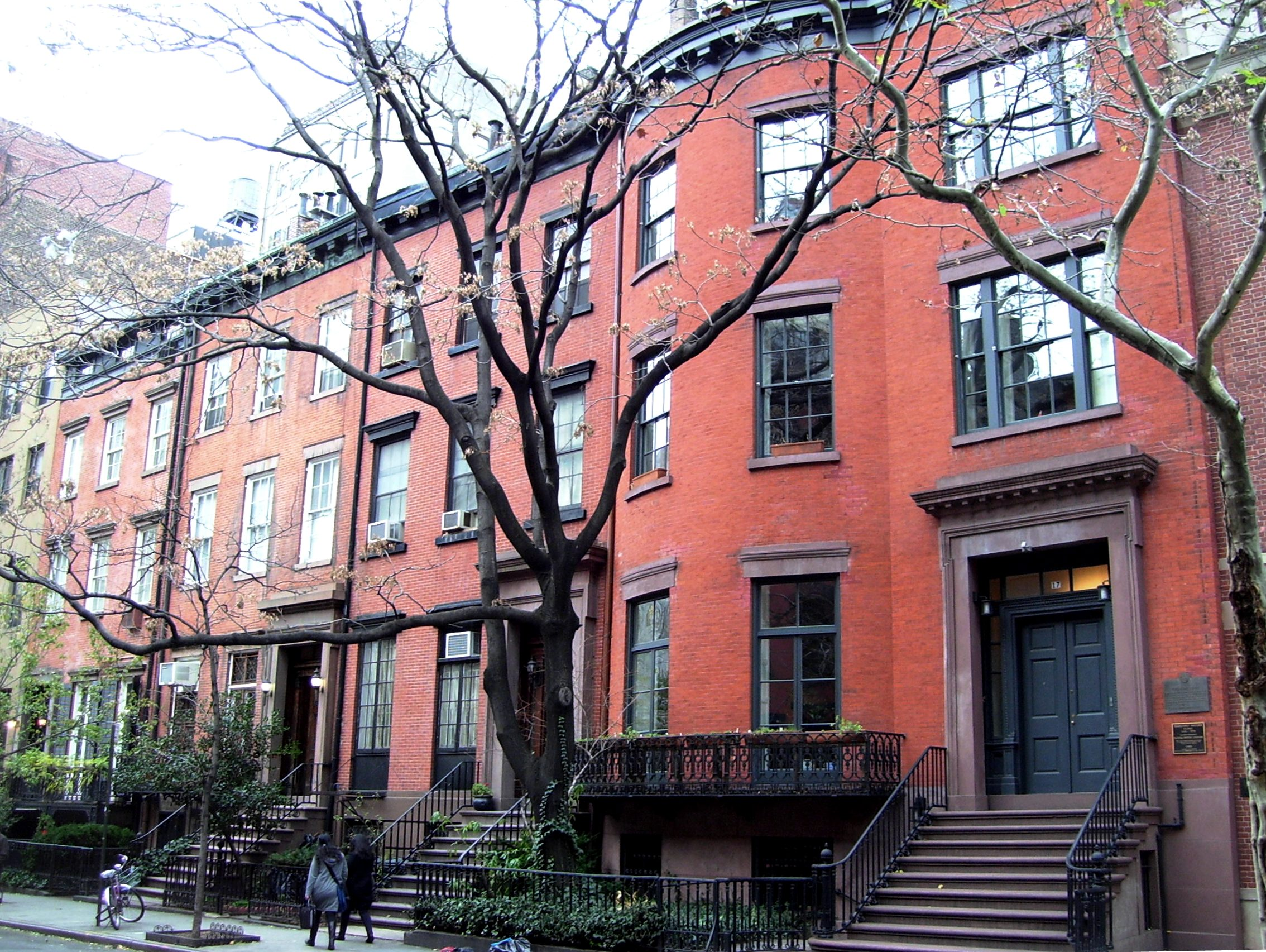 On the right, Number 17 West 16th Street between Fifth and Sixth Avenues in the Flatiron District of Manhattan, New York City, along with #5-9 down the block, is a remnant of a row of nine Greek revival houses built c.1846 which have curving front bays, a Manhattan rarity. It was here that Margaret Sanger's Birth Control Research Bureau was located from 1930 to 1973. #19 and 21 are built in the same style and on the same scale, but with simpler detailing, and have notable ironwork, while the cast-iron balcony and railing of #23 (on the far left) are notable. Each house was individually designated a NYC landmark in 1990. (Sources: AIA Guide to NYC (4th ed.), Guide to NYC Landmarks (4th ed.))